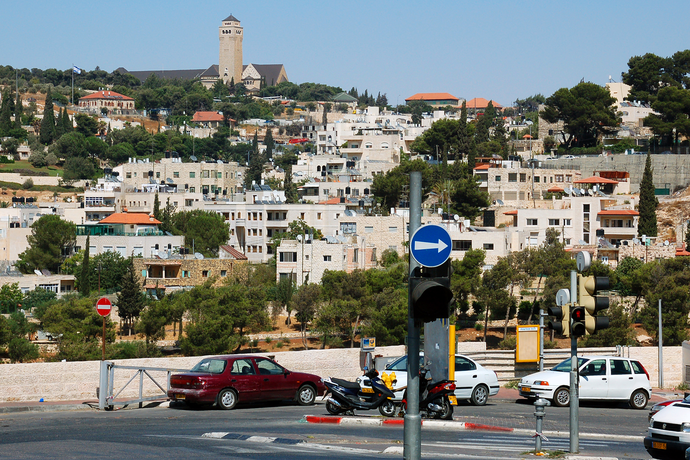 Alsawana Arab neighborhood in East Jerusalem